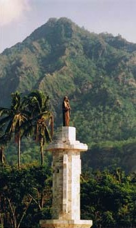 Description: Statue on the foreshore of Pante Macassar looking towards the mountains. Author: Dean PETERSON contact to author: Source: English wikipedia, source there: Dean PETERSON